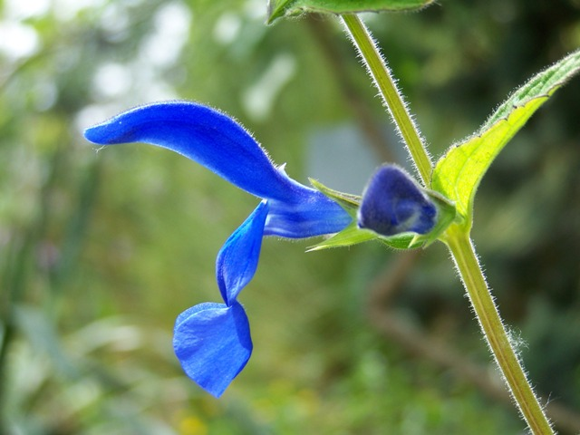 Gentian Sage, Blue-Flowered Sage, Spreading Blue Sage